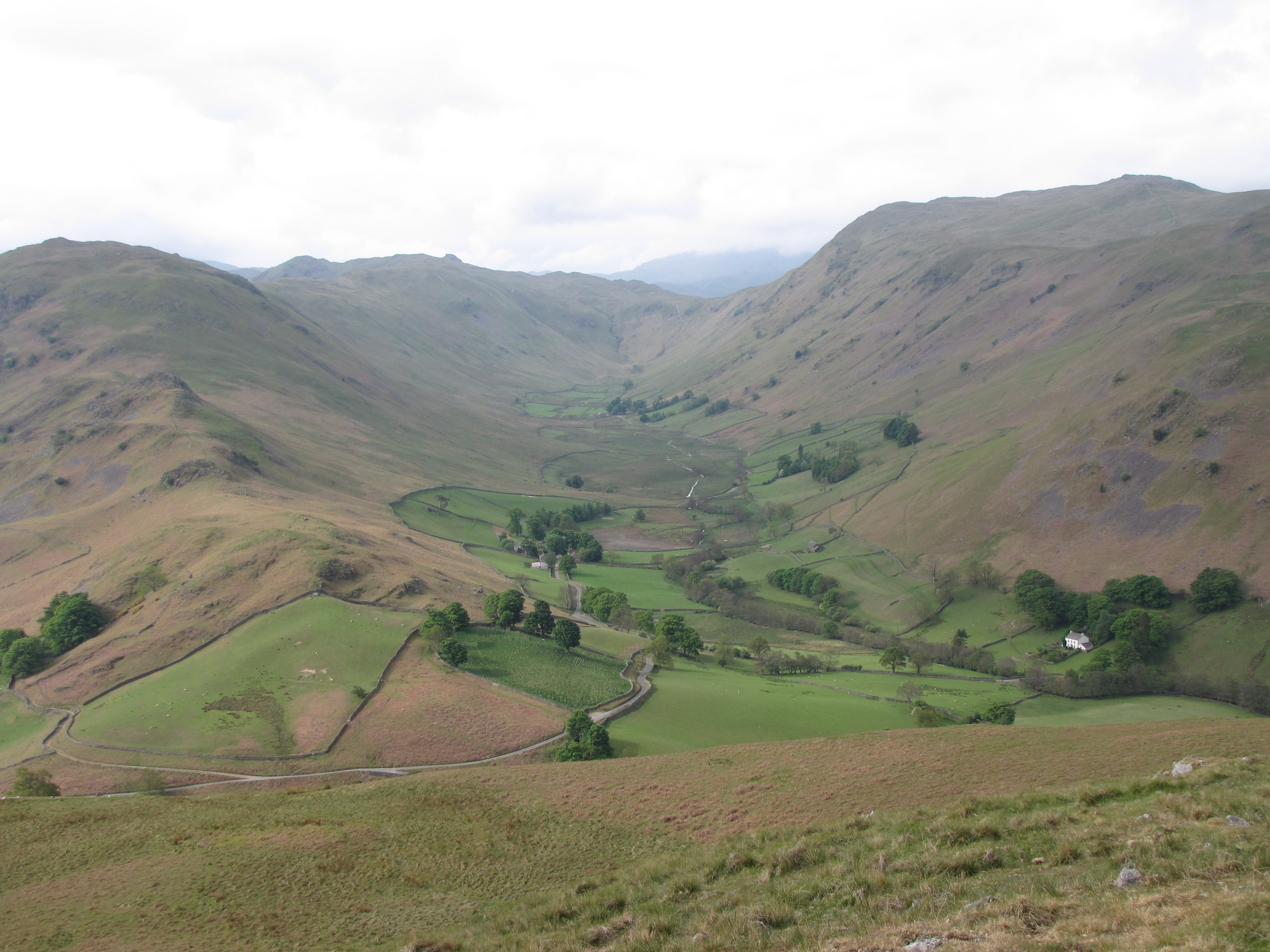 The valley of Boredale in the English Lake District from Hallin Fell